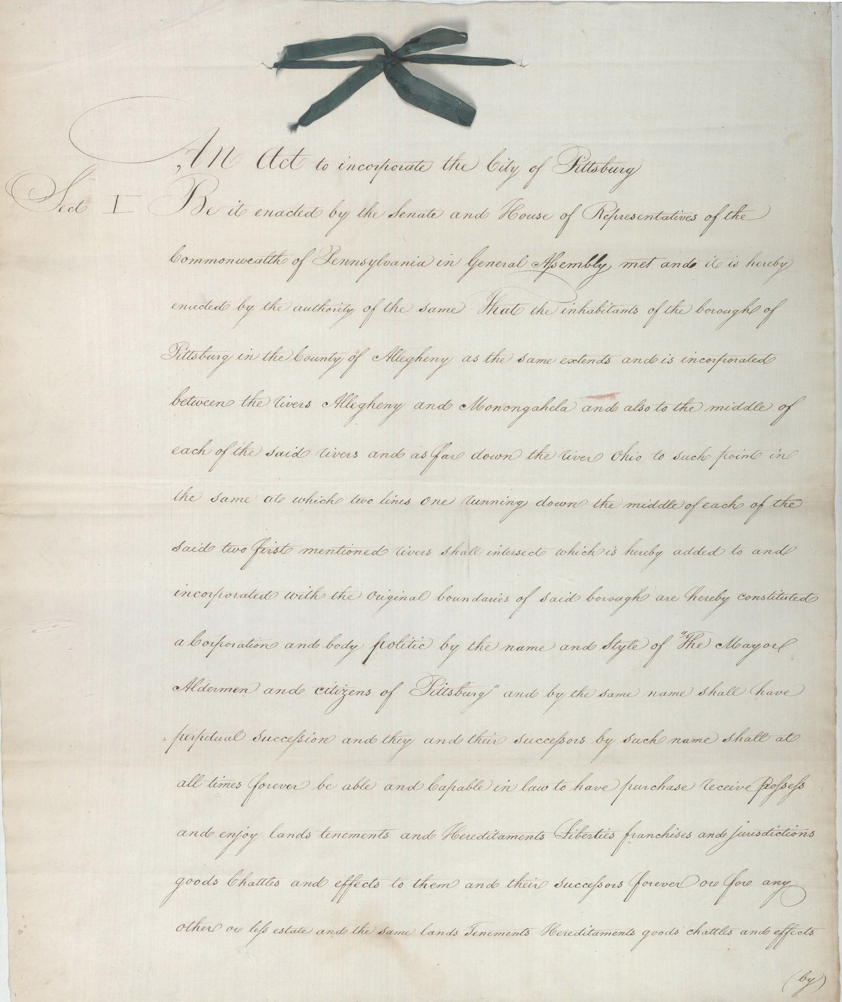 First page of the original 25-page charter that incorporated Pittsburgh, Pennsylvania as a city in 1816.